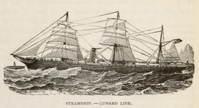 Steamship - Cunard Line 1878